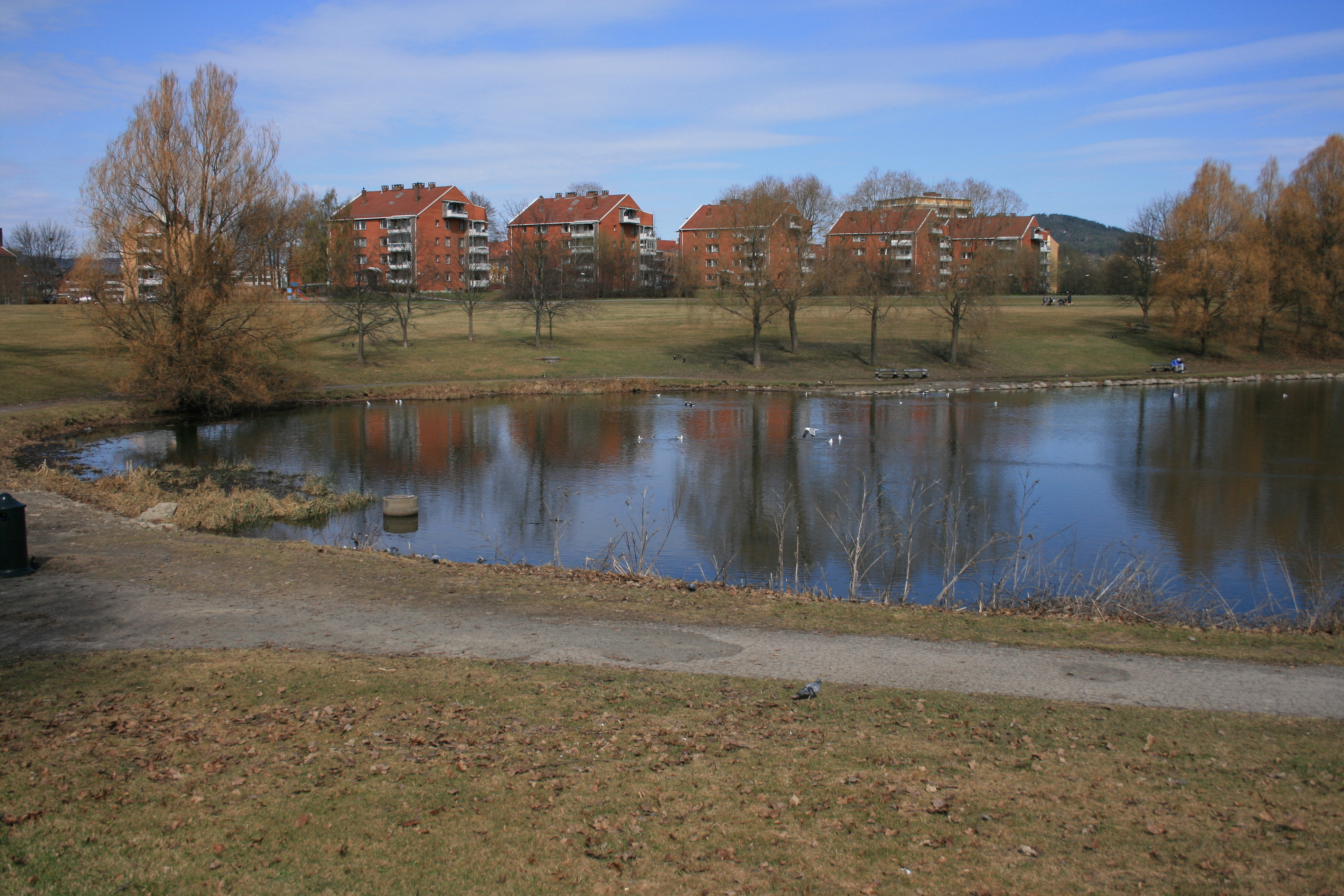 The neighbourhood Hovin in Oslo.